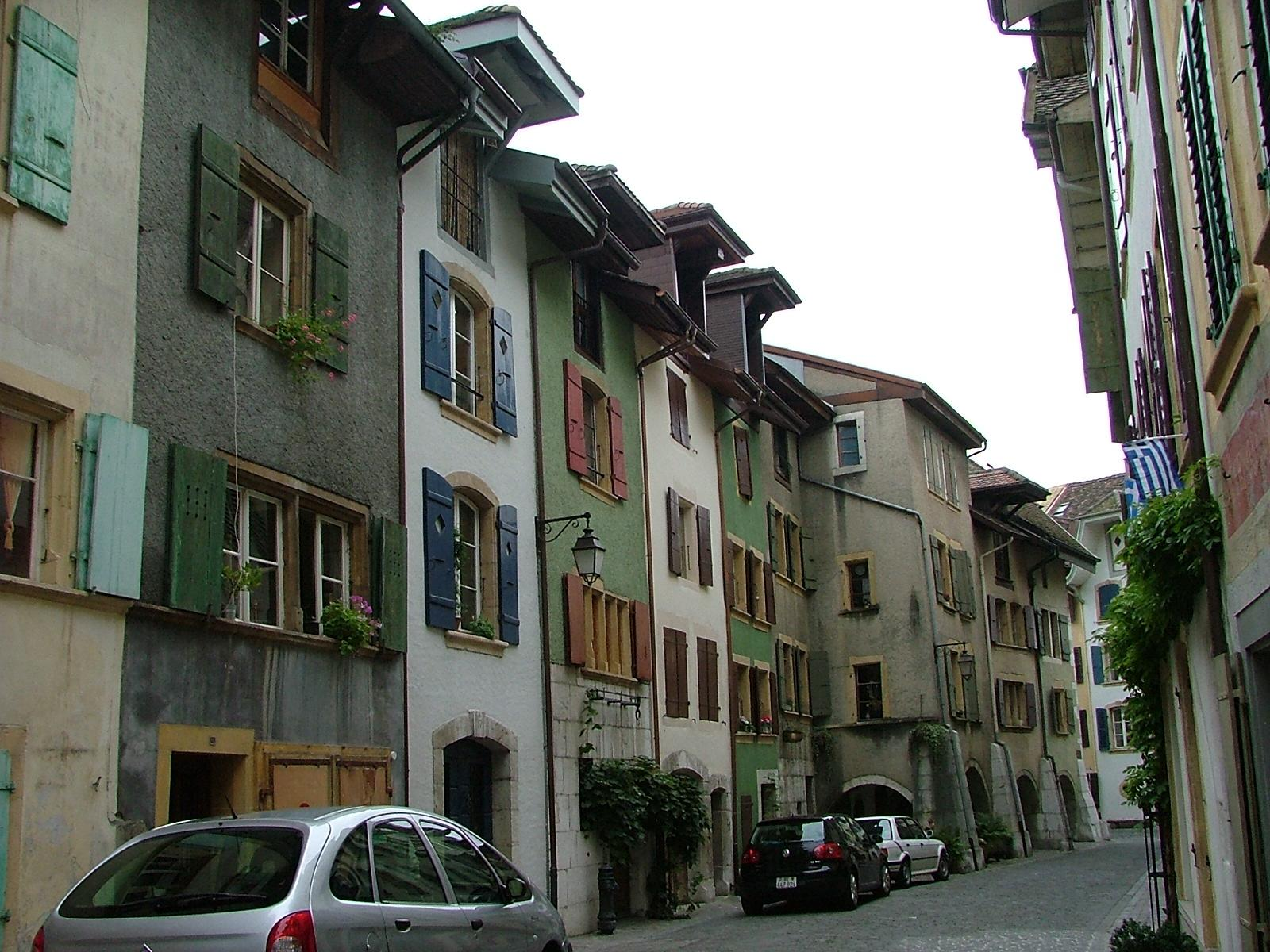 City street in the old city of La Neuveville, Switzerland.